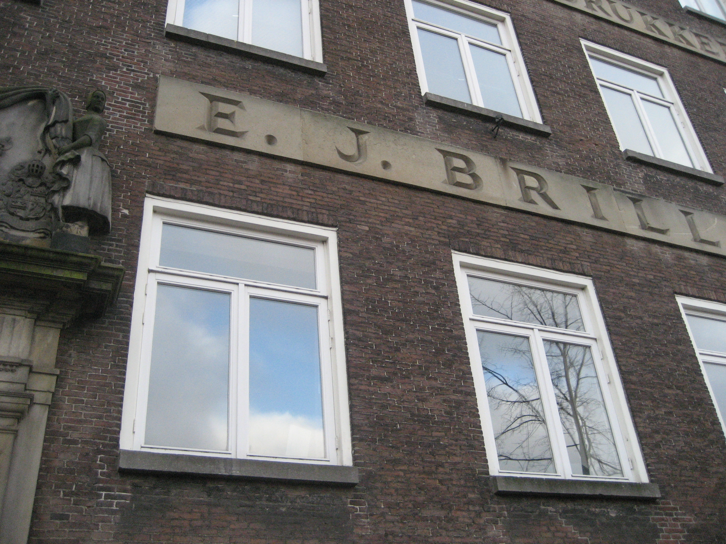 Former building of Brill Publishers, Leiden. Oude Rijn 33, Leiden (The Netherlands). Building dates from 1774. Brill Company worked here from 1883-1985